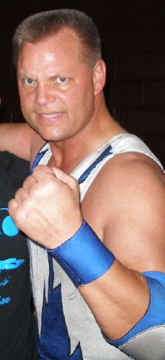 Professional wrestler Glacier in March 2008.